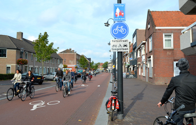 Fietsstraat or bike street is a road where bicycles share the path with cars. Usually bikes still dominate the road.